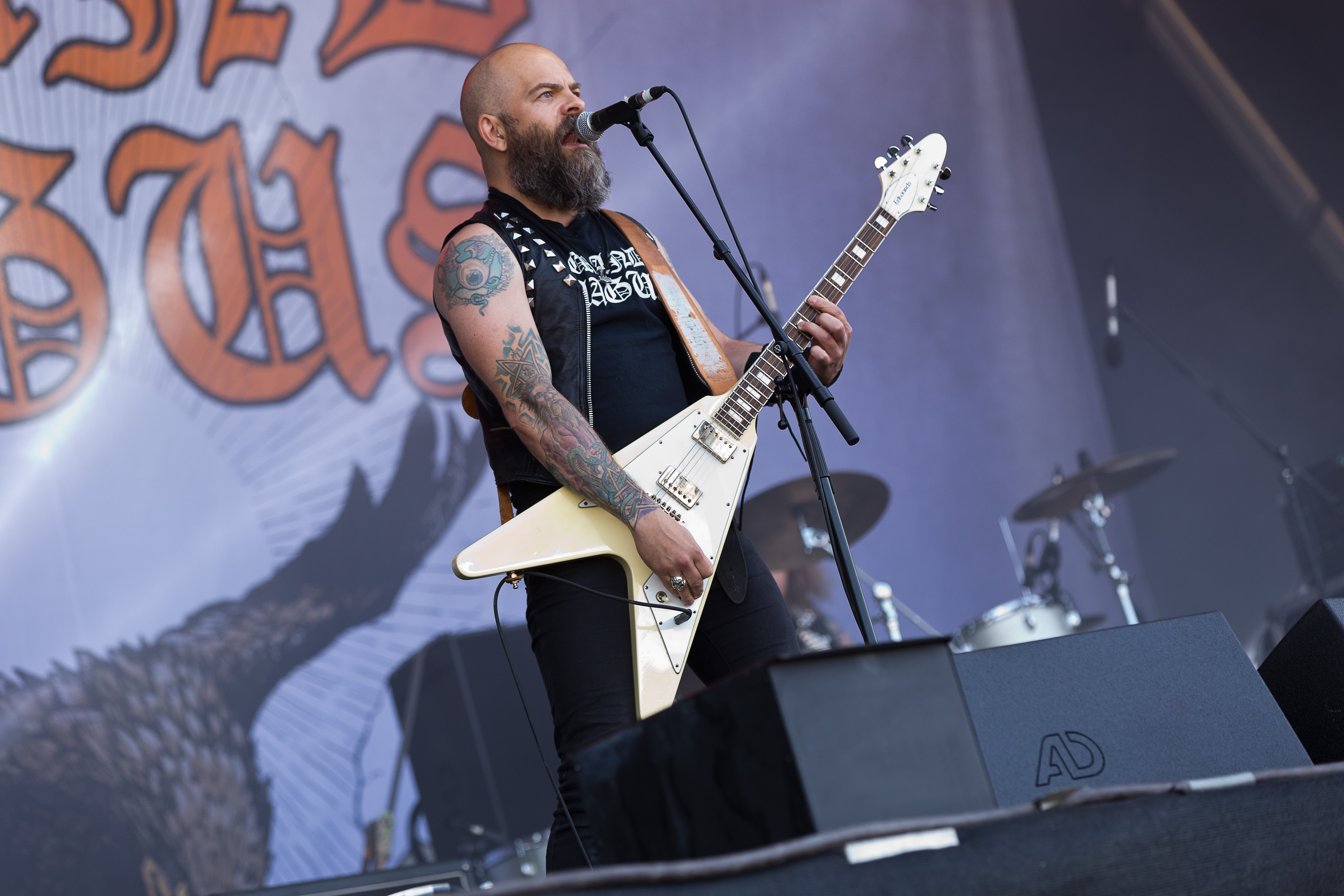 The Swedish stoner metal band Grand Magus at the Rockharz Open Air 2016 in Ballenstedt/Germany.